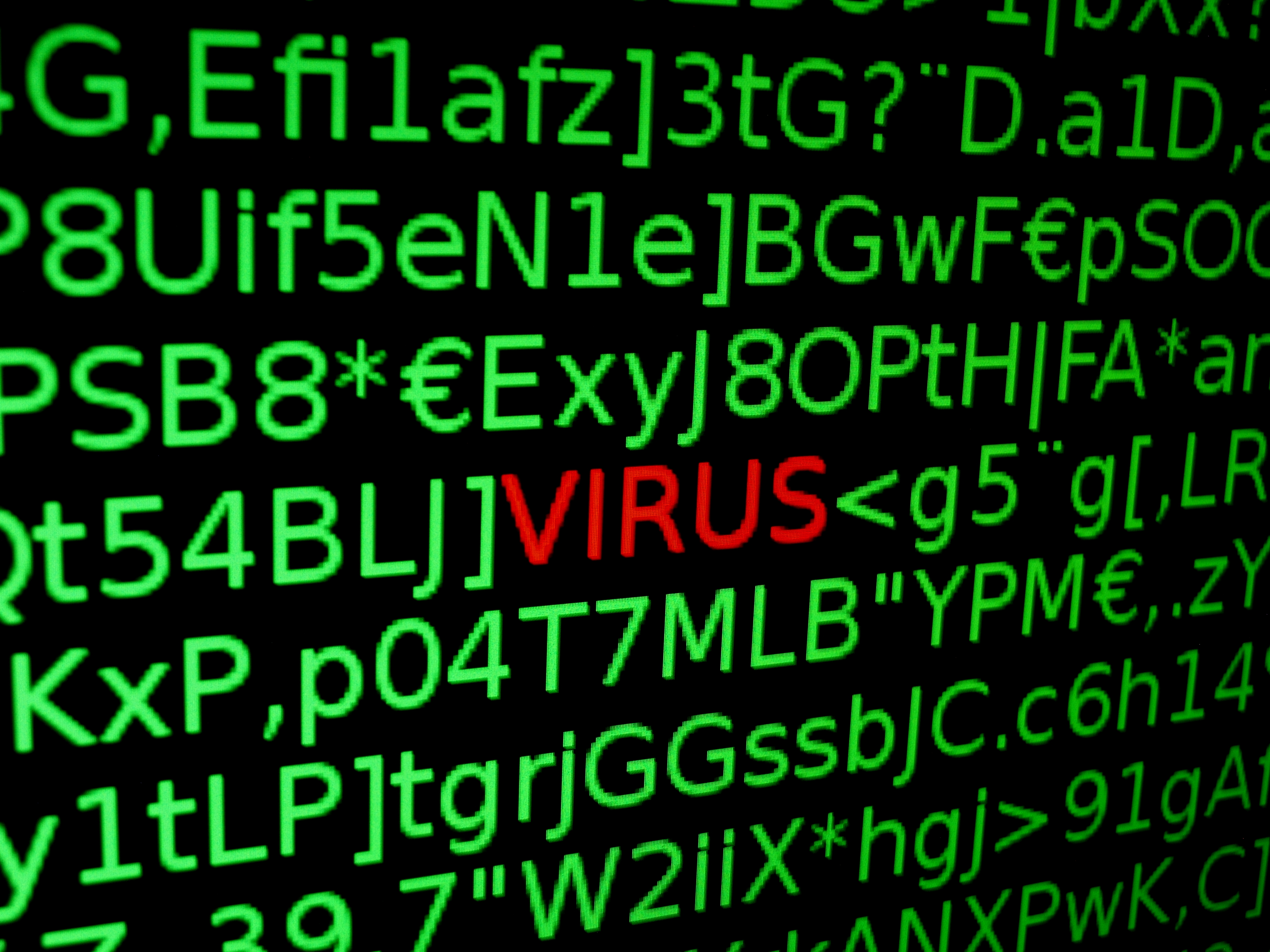 Computer virus illustration.